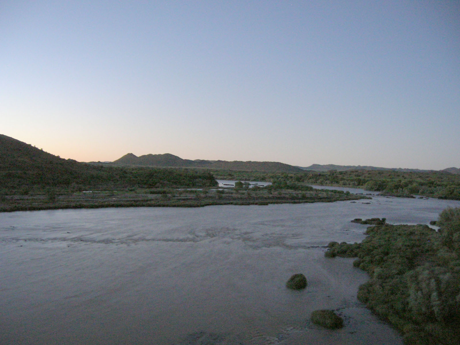 Dusk over the Orange River at the N1 bridge. (South Africa). Yes, it's under-exposed - it's in the middle of nowhere, and I got off to a late start on the road trip.